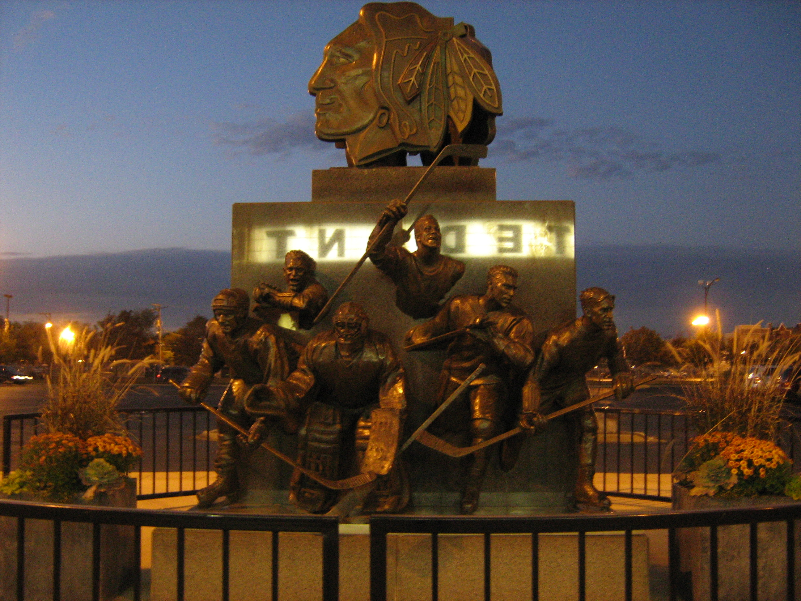 United Center Chicago Blackhawks Sculpture